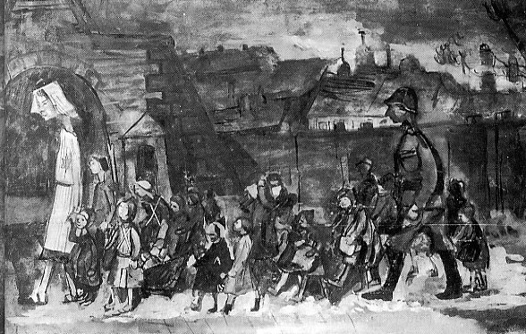 A drawing of children transported from the Bialystok Ghetto to Theresienstadt in August 1943. The children were murdered in Auschwitz in October. It is in the public domain because the author died in 1945, shortly after liberation.